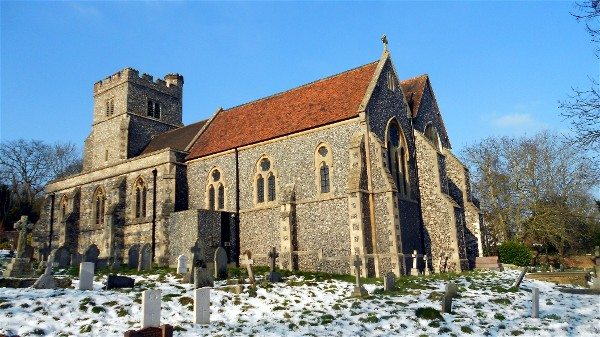 Shorne Church